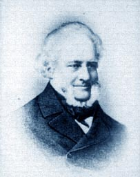 James Stirling. 1st Governor of Western Australia.